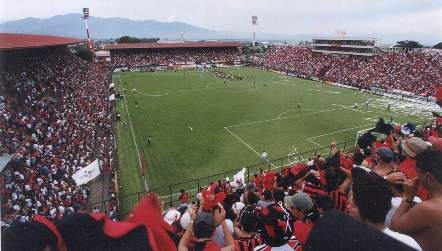 Stadium Alejandro Morera Soto (Costa Rican Football Cathedral) self-made created 17. June. 2002